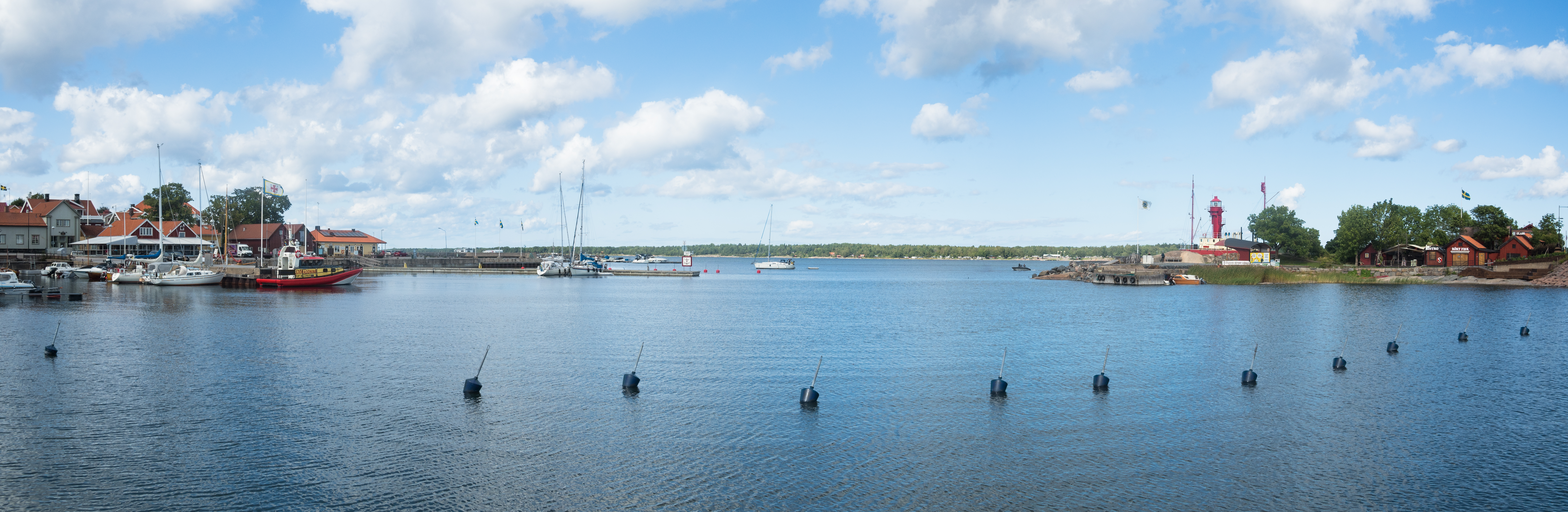 Öregrund Hamn/Oregrund Marina looking out to the Bothnian Sea